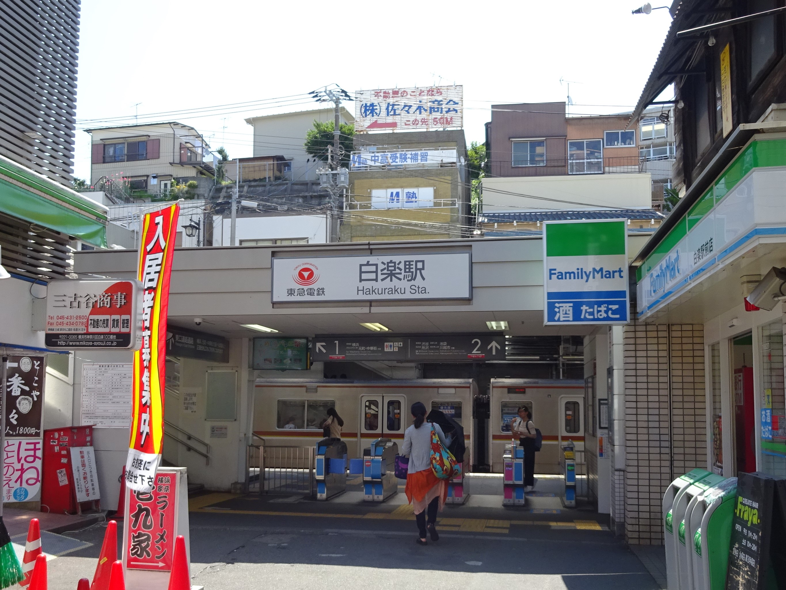 West entrance of Hakuraku Station